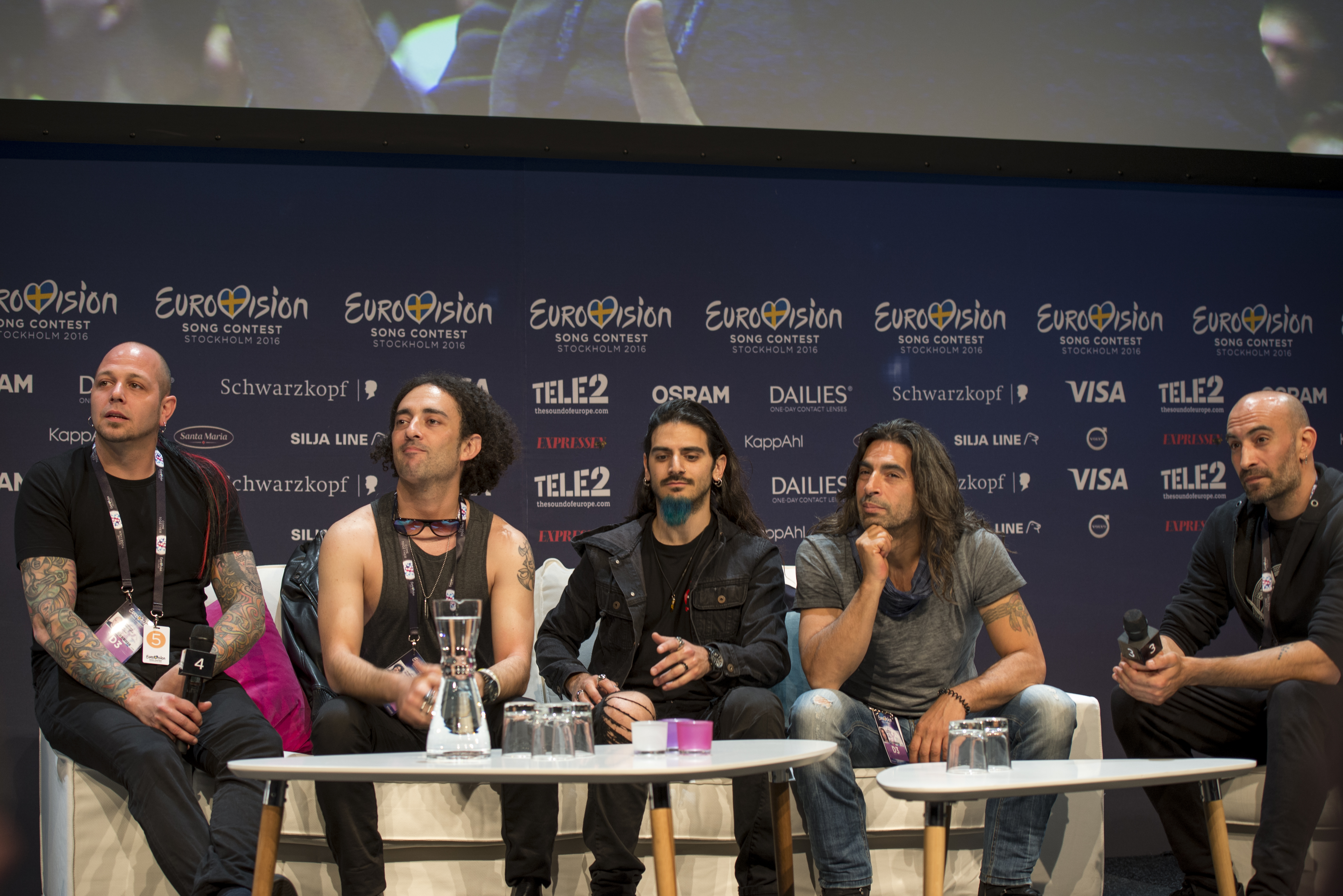 Minus One at a Meet & Greet during the Eurovision Song Contest 2016 in Stockholm. (Help translate this text)